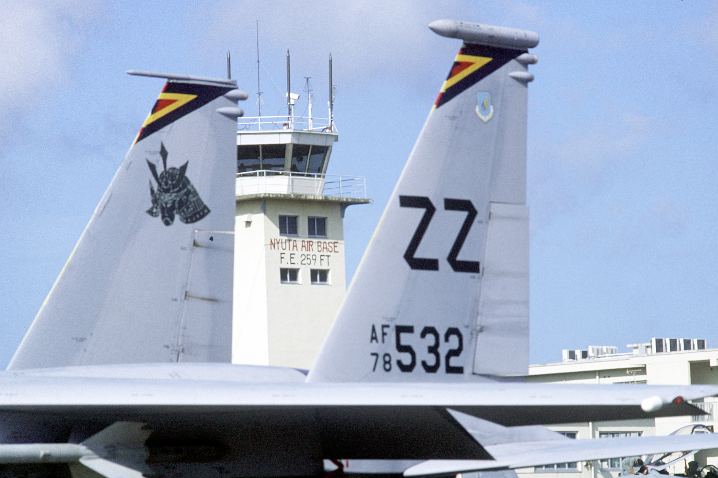 The tail of an F-15 Eagle aircraft of the 18th Tactical Fighter Wing participating in the joint U.S./Japan exercise Cope North 85-4. Location: NYUTABARU AIR BASE, KYASHU JAPAN (JPN)